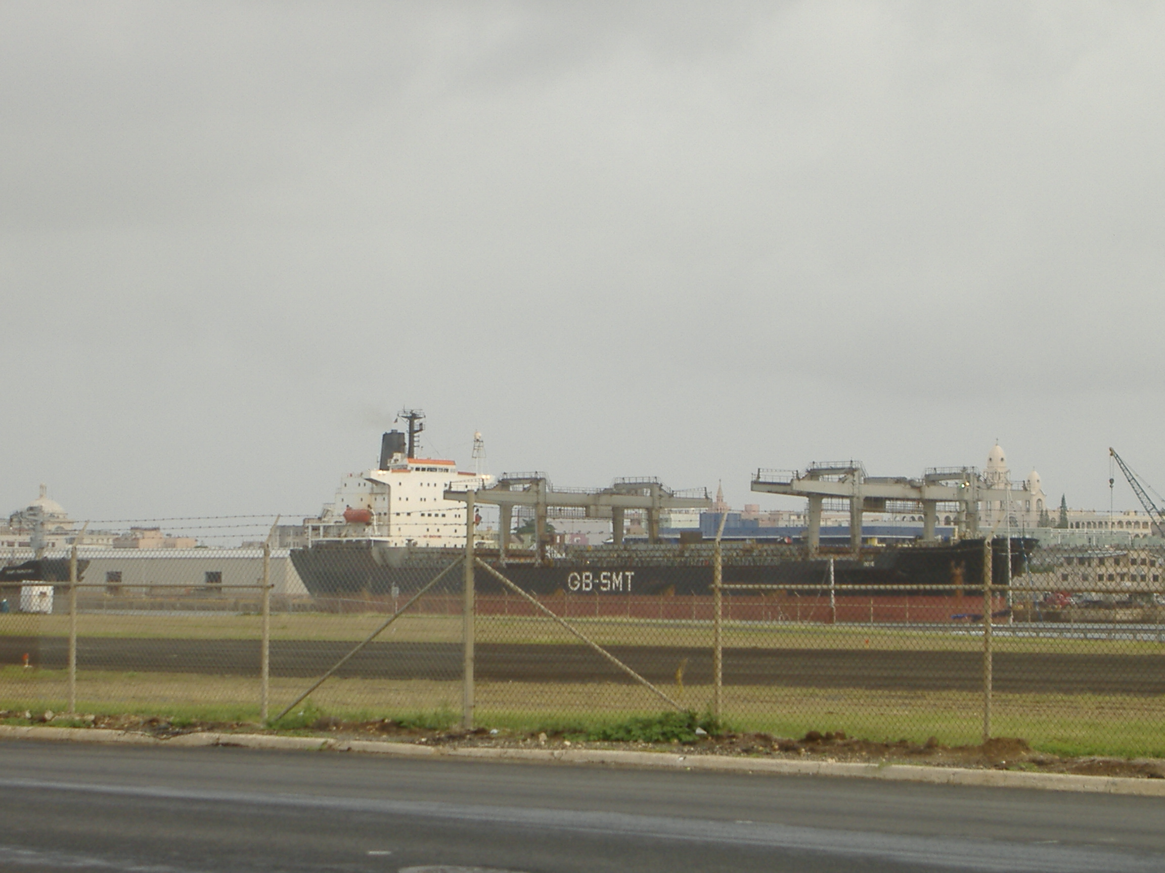 San Juan Port in operations. Picture taken by myself in June 2006.